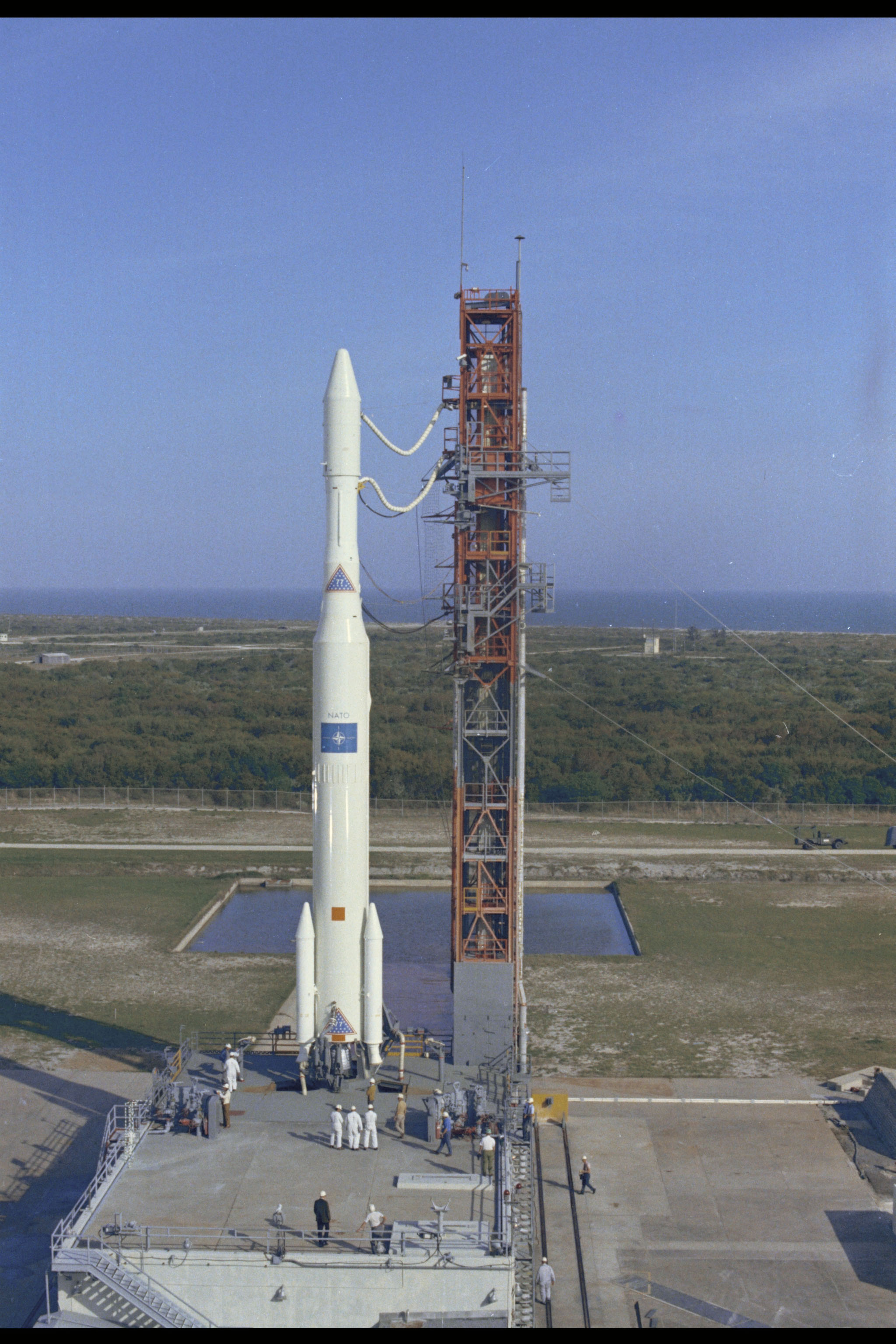 Launch of the first NATO communications satellite (SATCOM) for a Delta M Cape Kennedy 20 March 1970